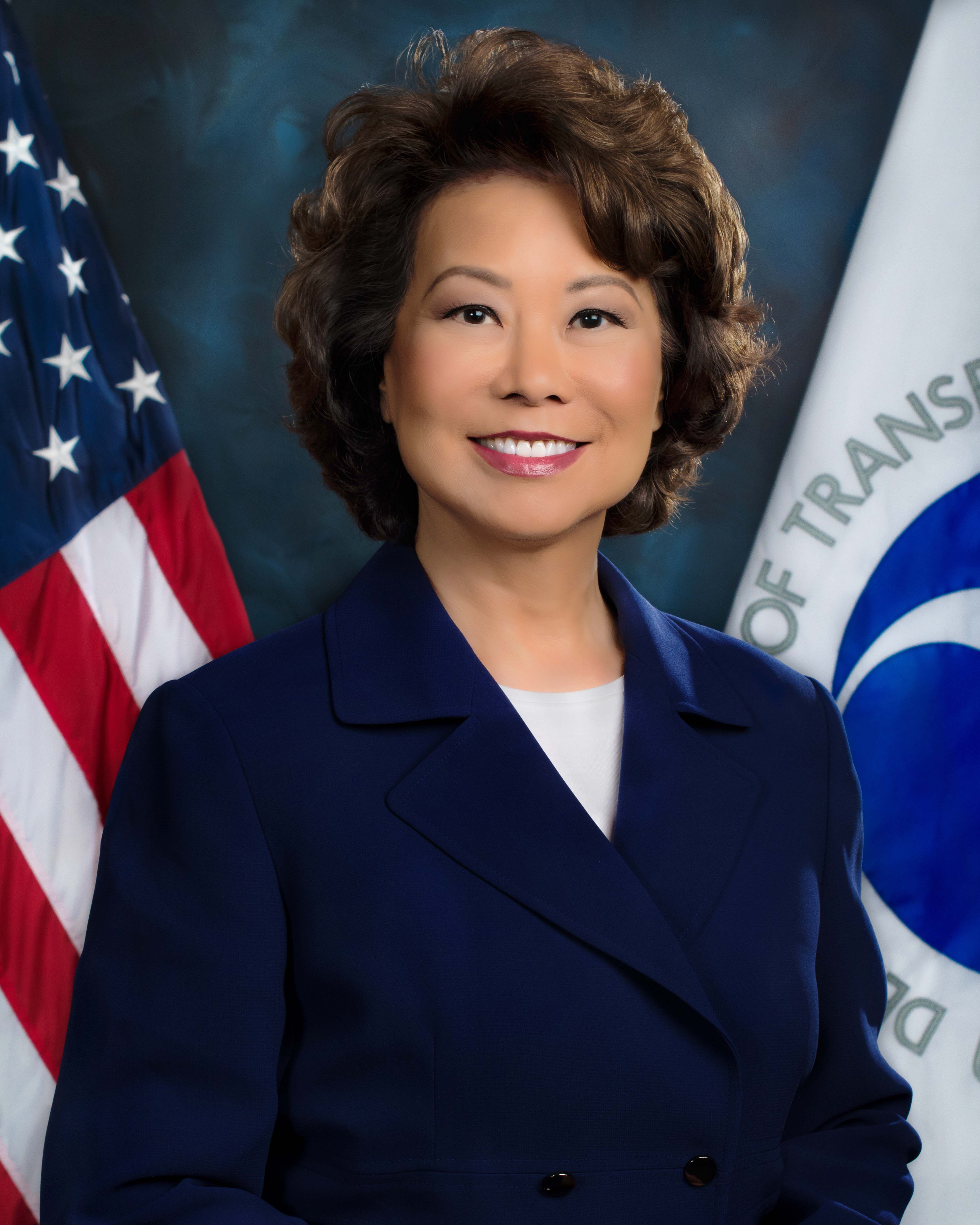 Elaine Chao official United States Secretary of Transportation photo.